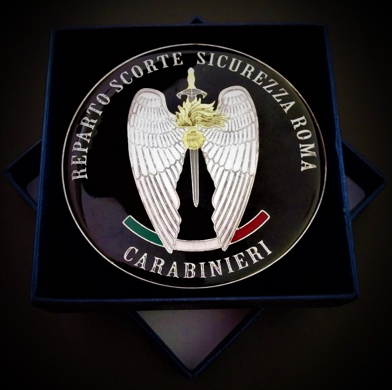 Carabinieri Department of Protection and Security